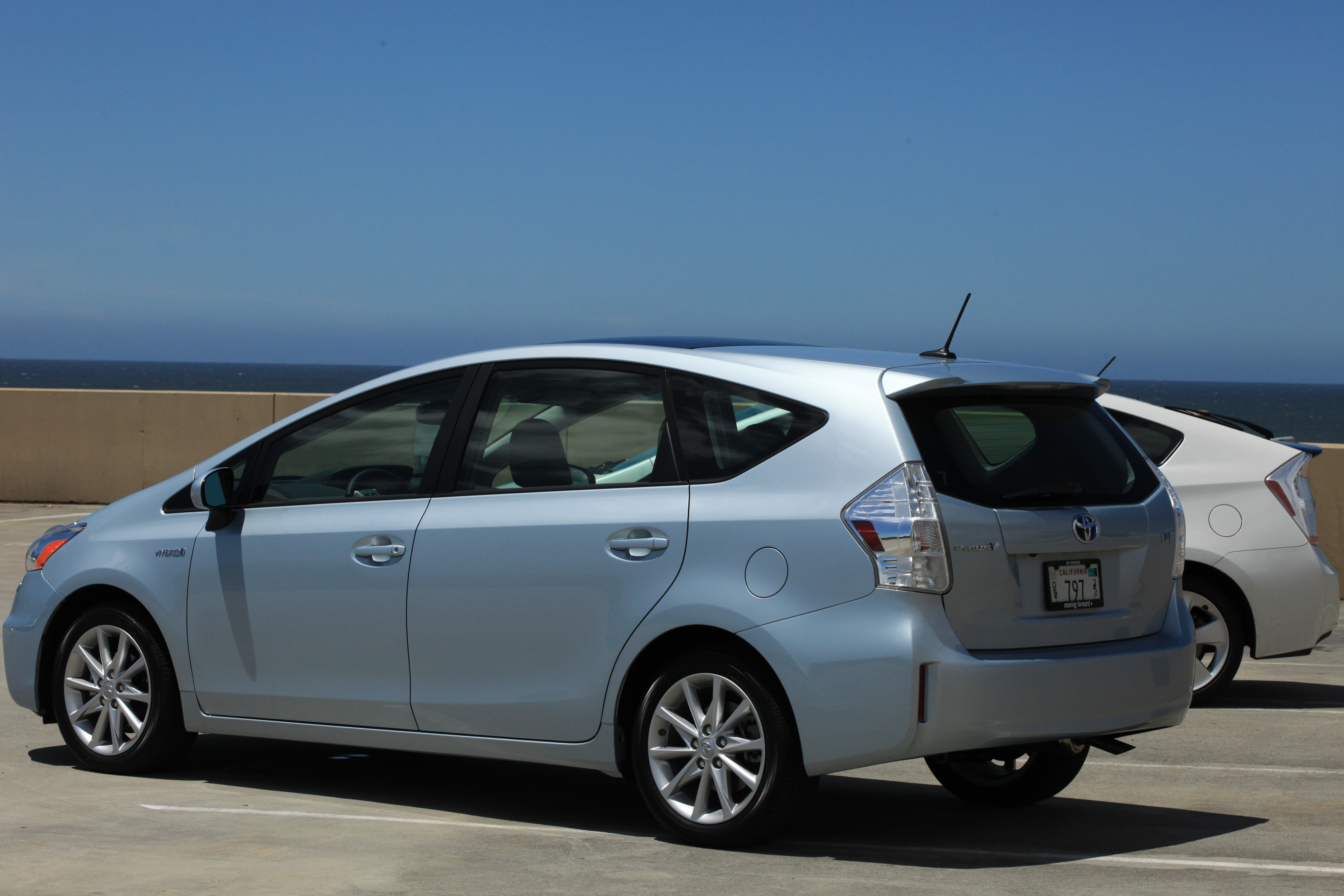 2012 Toyota Prius v (American version)